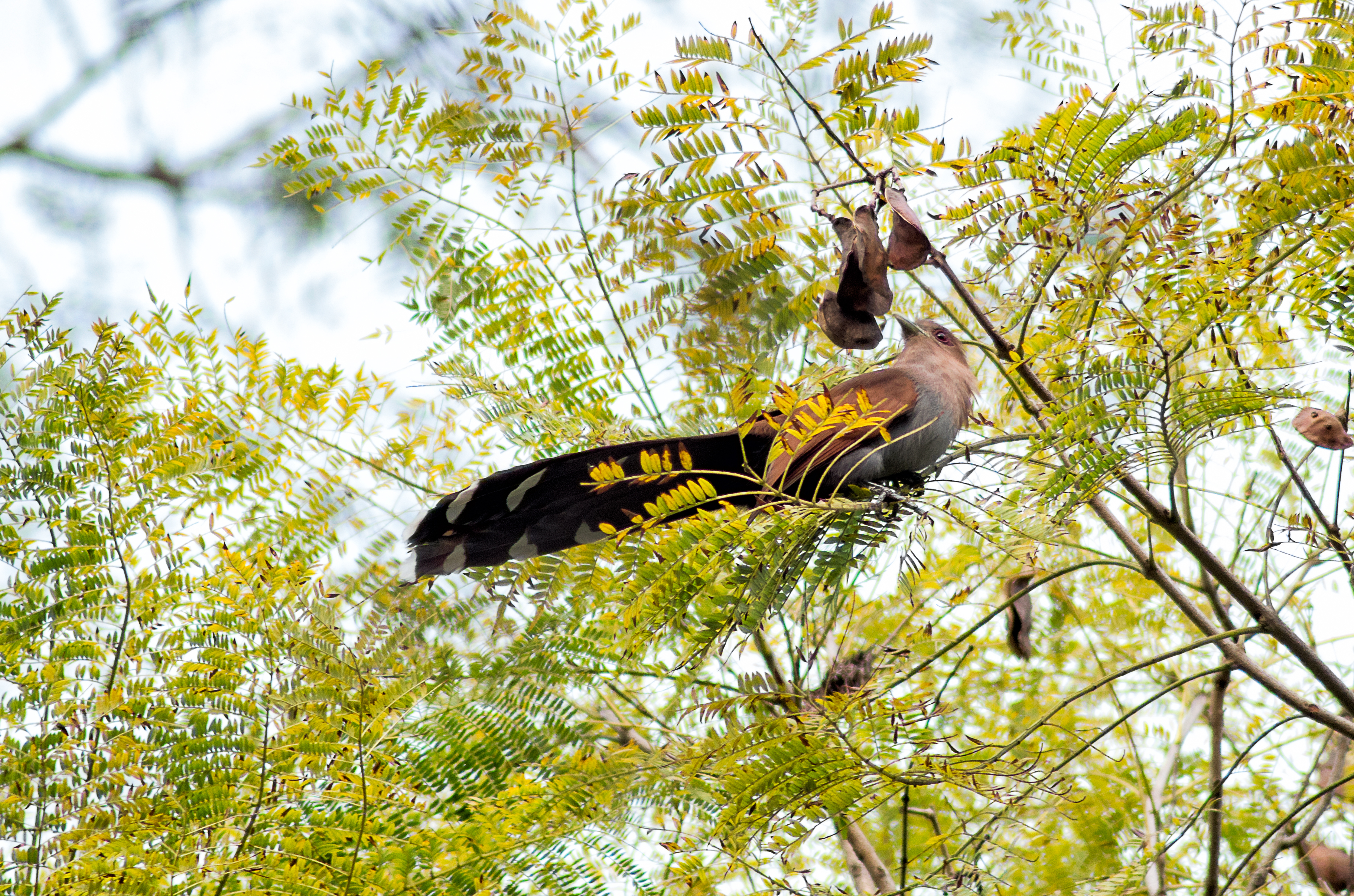 Squirrel cuckoo (Piaya cayana) at Instituto Butantan.